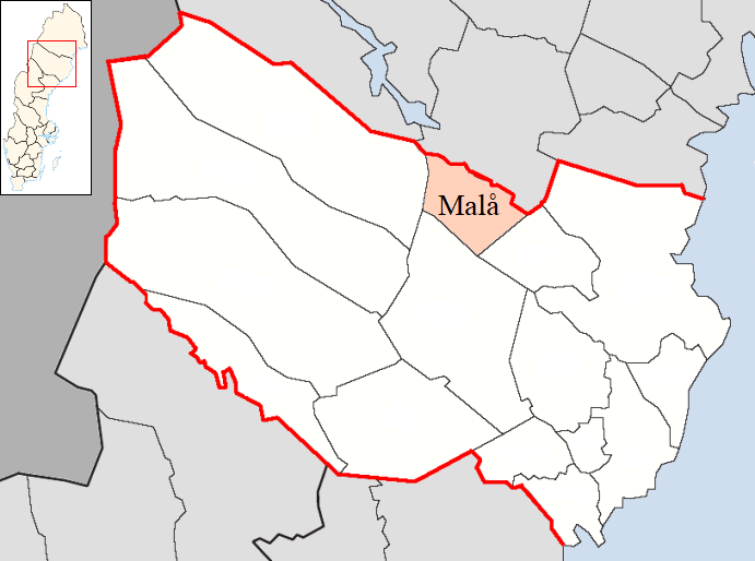 Malå Municipality in Västerbotten County Designed by me. Mere outlines are a PD source from